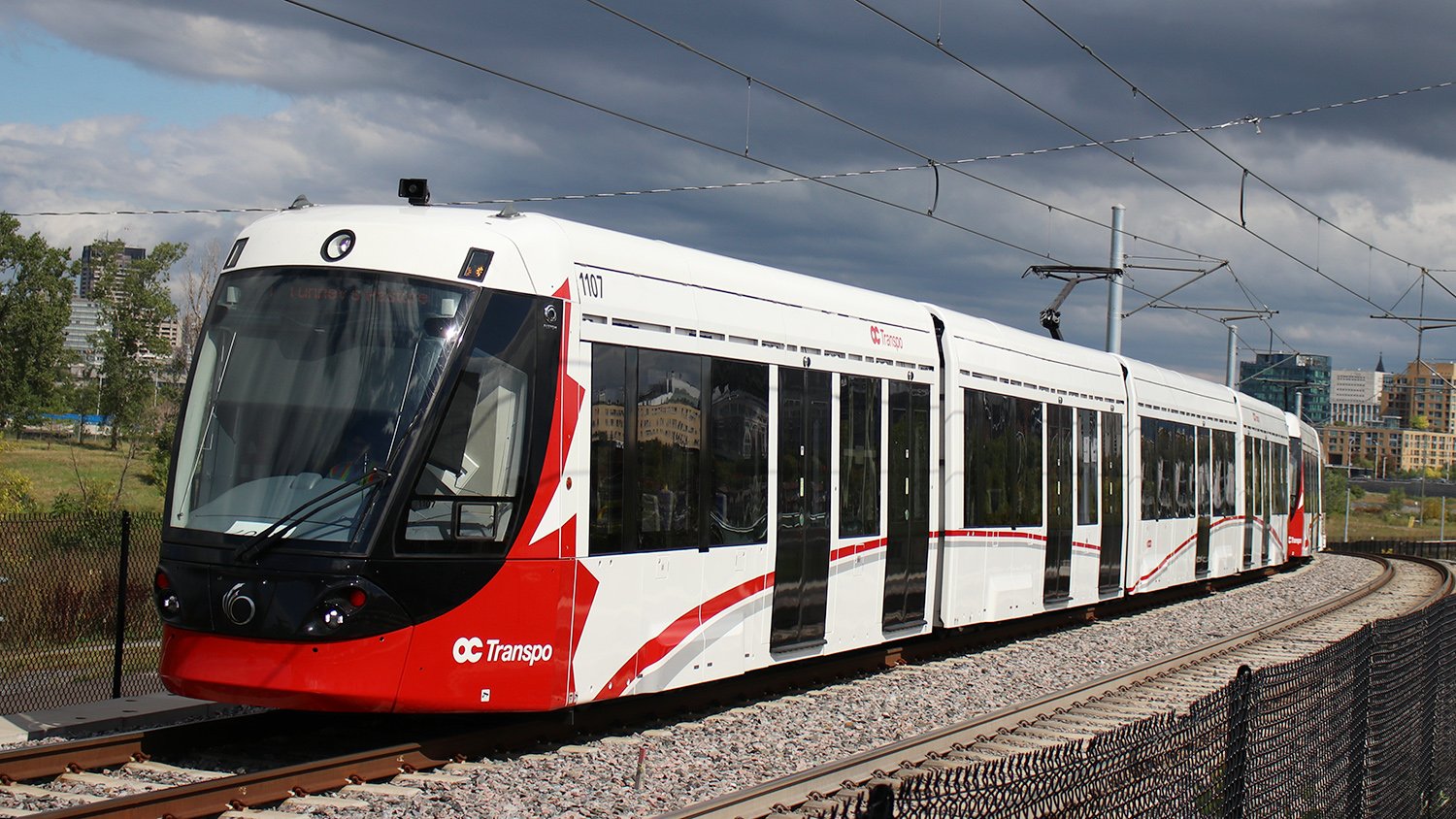 OC Transpo Alstom Citadis Spirit light rail #1107 has been seen near Bayview Station while first day of revenue service